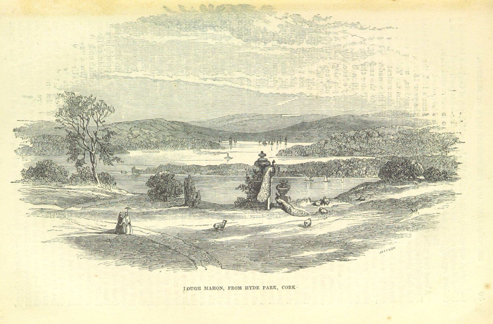 Image taken from: Title: "Illustrated Handbook to Cork, the Lakes of Killarney, and the South of Ireland ... From the Irish Tourists' Handbook [or rather “The Tourists' Illustrated Handbook for Ireland”]", "Appendix" Shelfmark: "British Library HMNTS 010390.ee.39." Page: 59 Place of Publishing: London Date of Publishing: 1859 Publisher: W. Smith & Sons Issuance: monographic Identifier: 000786268 Explore: Find this item in the British Library catalogue, 'Explore'. Open the page in the British Library's itemViewer (page image 59) Download the PDF for this book Image found on book scan 59 (NB not a pagenumber)Download the OCR-derived text for this volume: (plain text) or (json) Click here to see all the illustrations in this book and click here to browse other illustrations published in books in the same year. Order a higher quality version from here.